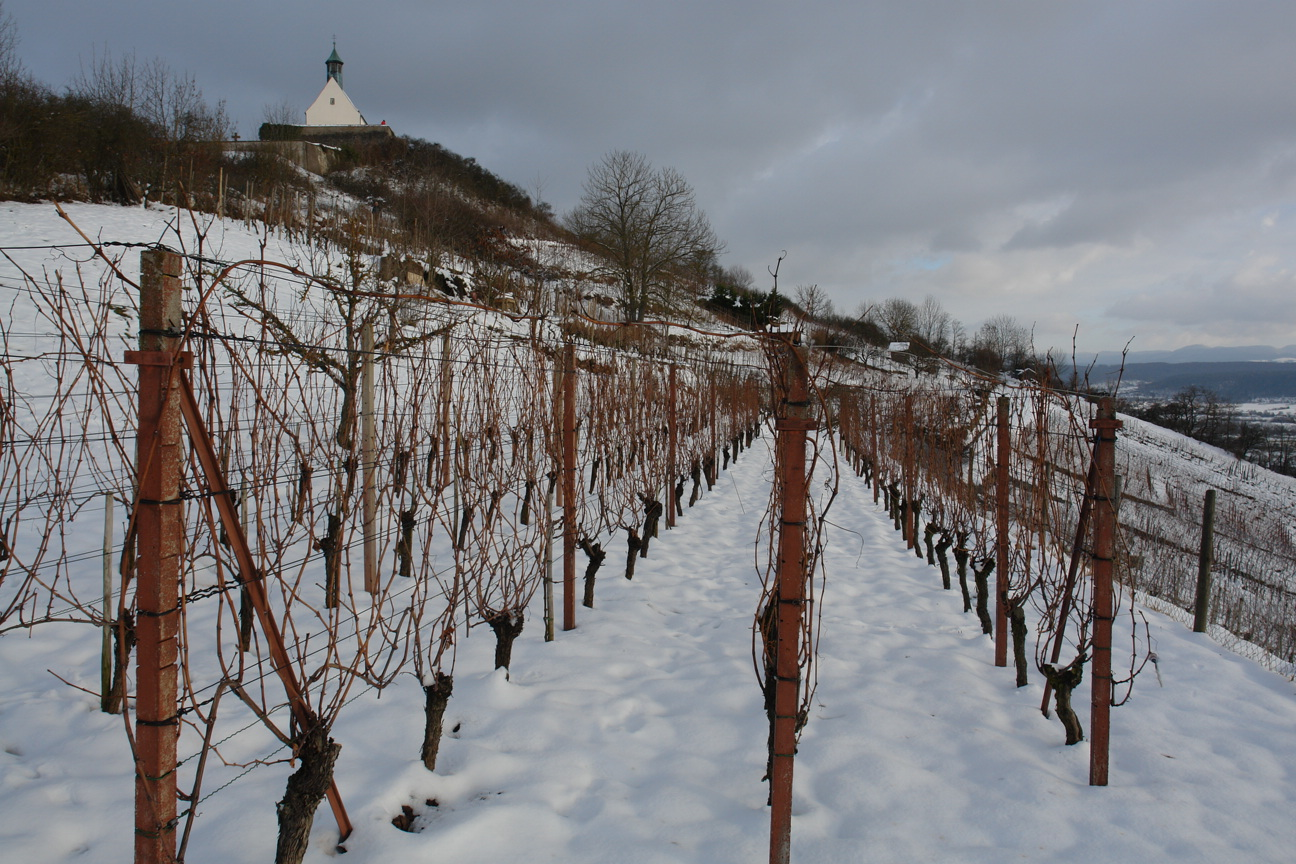 Wine grown on the contour line of the Kapellenberg near Wurmlingen (Germany) Quer zum Hang gezogener Wein am Wurmlinger Kapellenberg im Kreis Tübingen